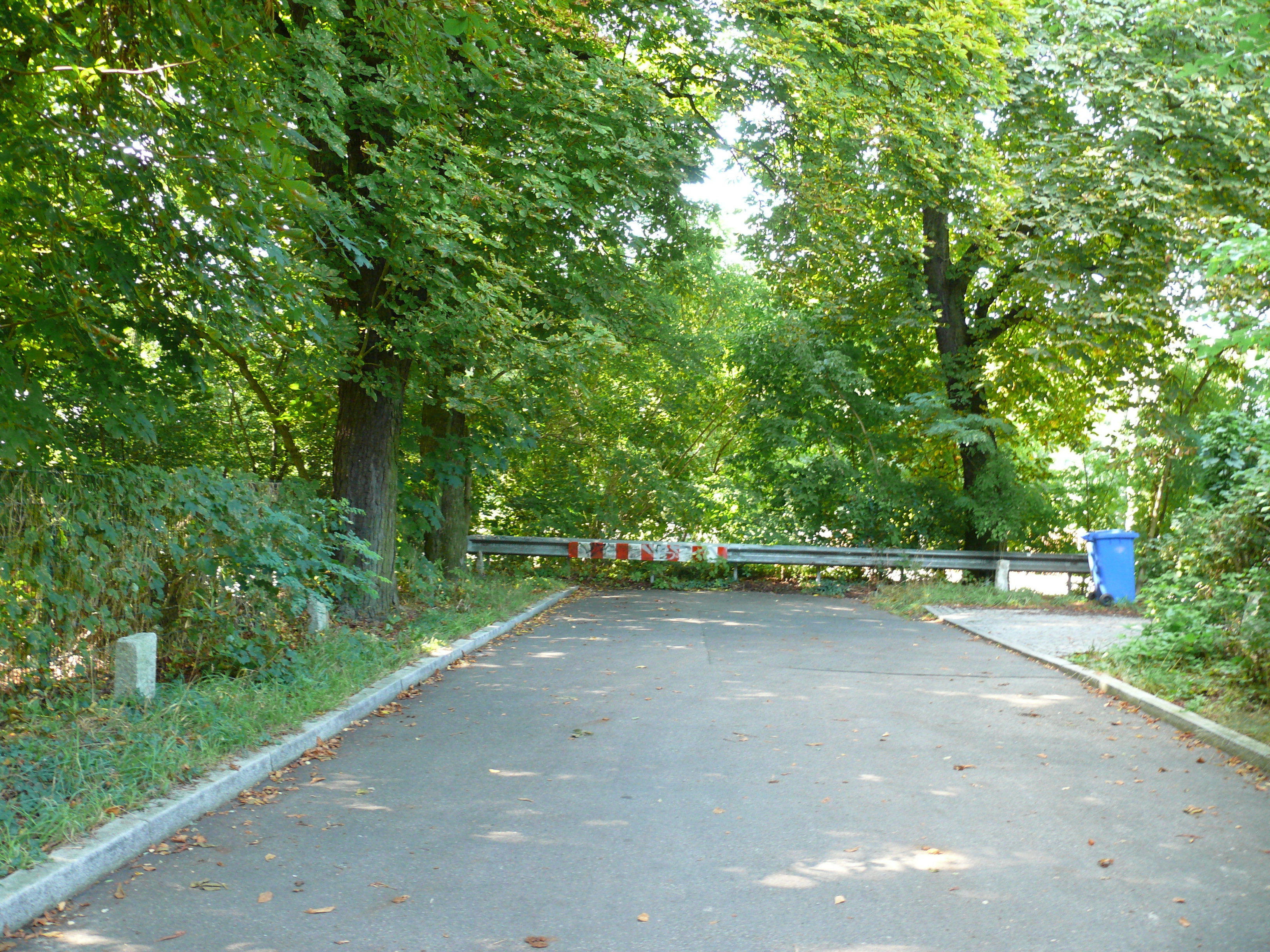 Berlin-Wannsee Königsweg Ende